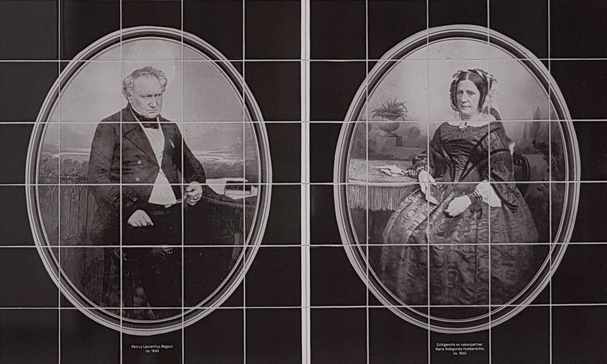 Tiled mural in the Sphinx Passage in Maastricht, Netherlands. The Sphinx Passage is a semi-public covered walkway, situated between the 1930s Eiffel Building and the modern Pathé Cinema, in the heart of the Sphinx Quarter, the former site of the Petrus Regout and Royal Sphinx potteries. The blind east wall of the passage is entirely tiled, showing Maastricht's history as an early industrial pottery town. Here: Petrus Regout and his wife Aldegonda Hoeberechts and their stately home outside Maastricht, Vaeshartelt.